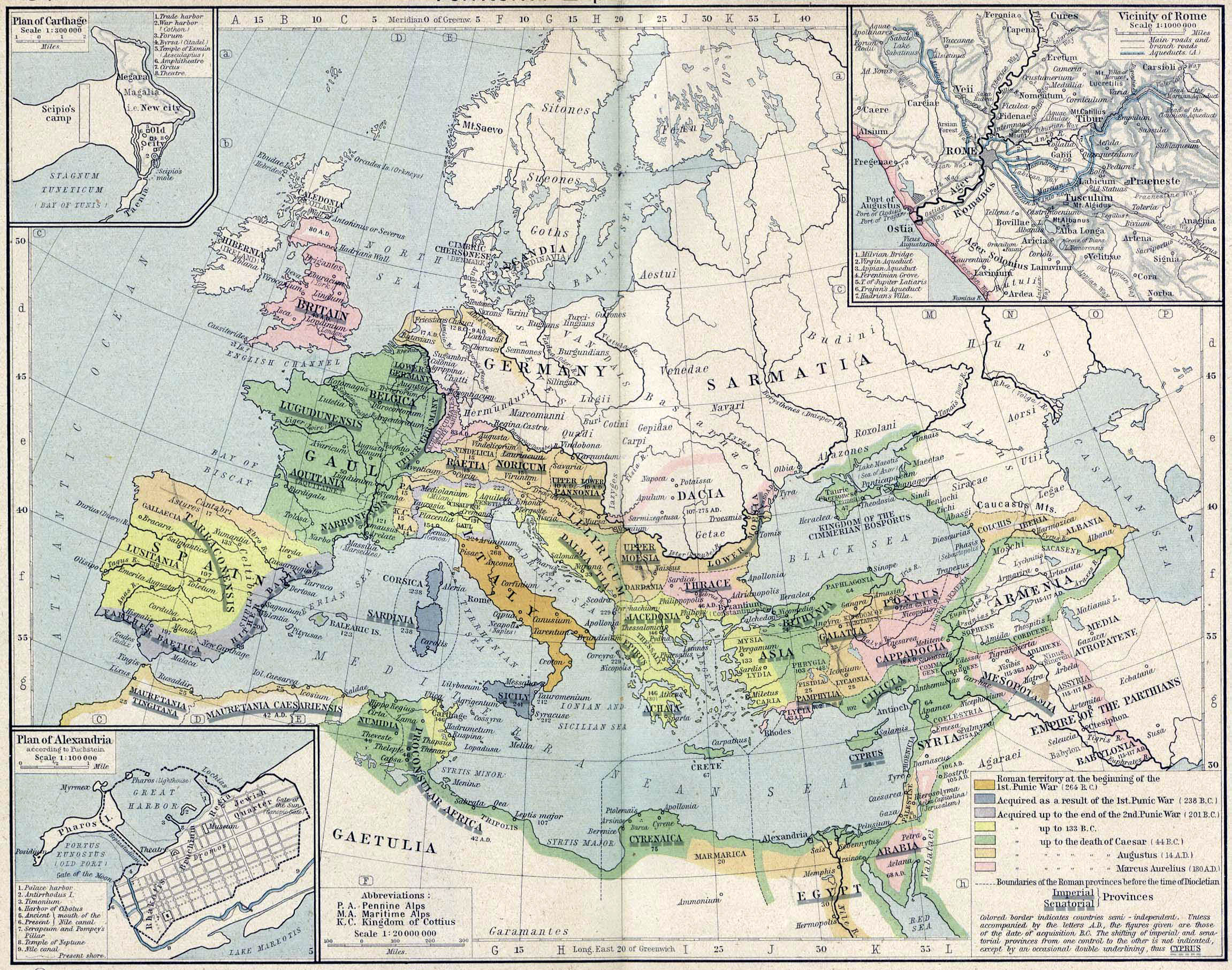 Roman territory, from the beginning of the 1st punic war (264 B.C.) to the death of Diocletian